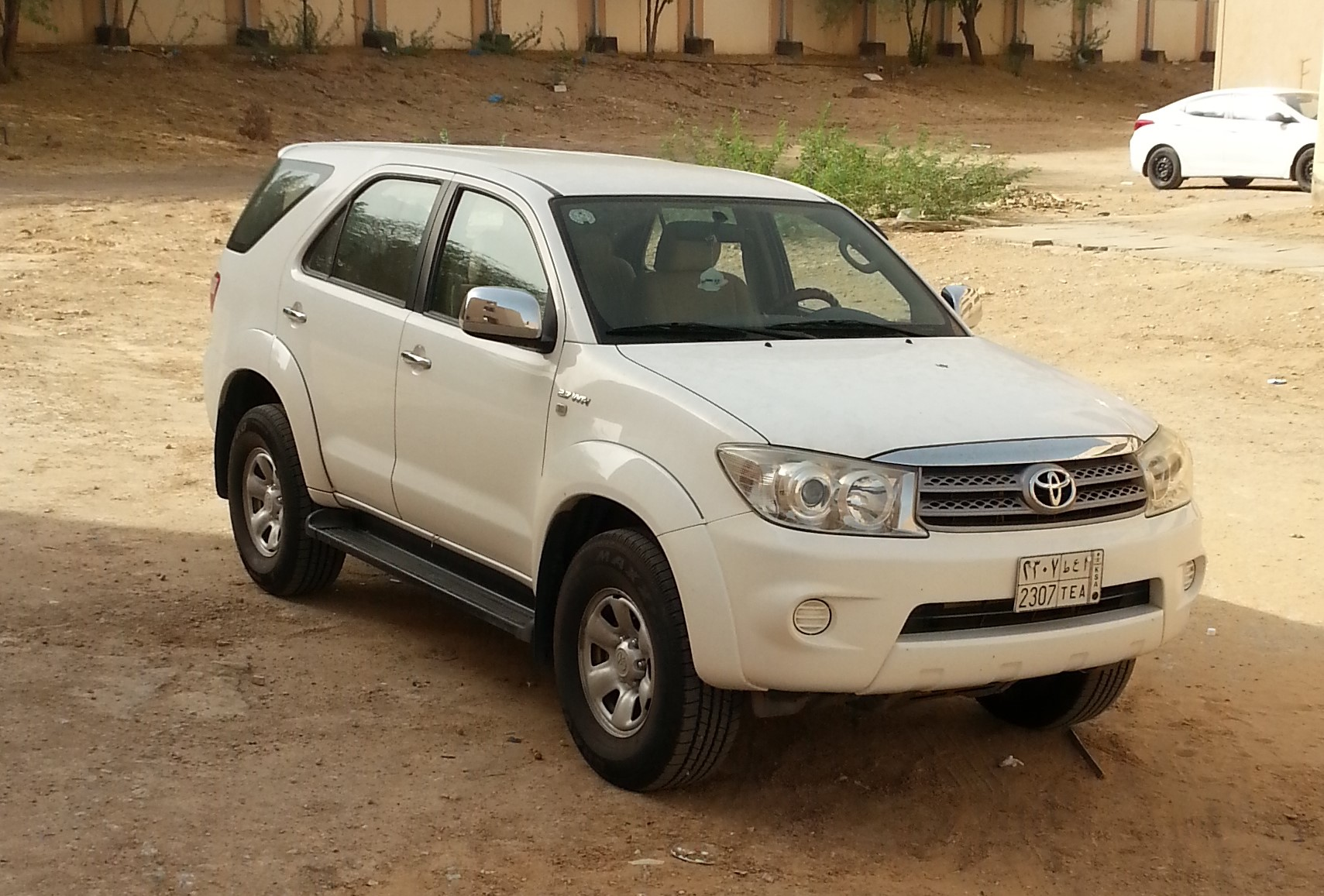 A picture of the Arabian Toyota Fortuner Model